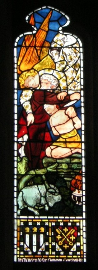 English stained glass, Peterborough, looks like William Morris, circa 1870